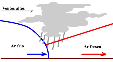 Occluded front - Frente oclusa